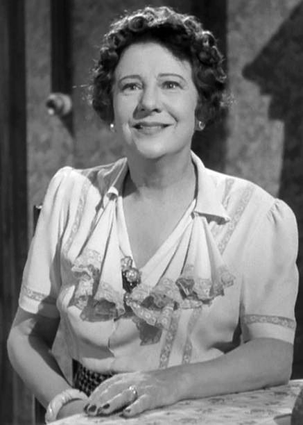 Rosalind Ivan in Scarlet Street - cropped screenshot